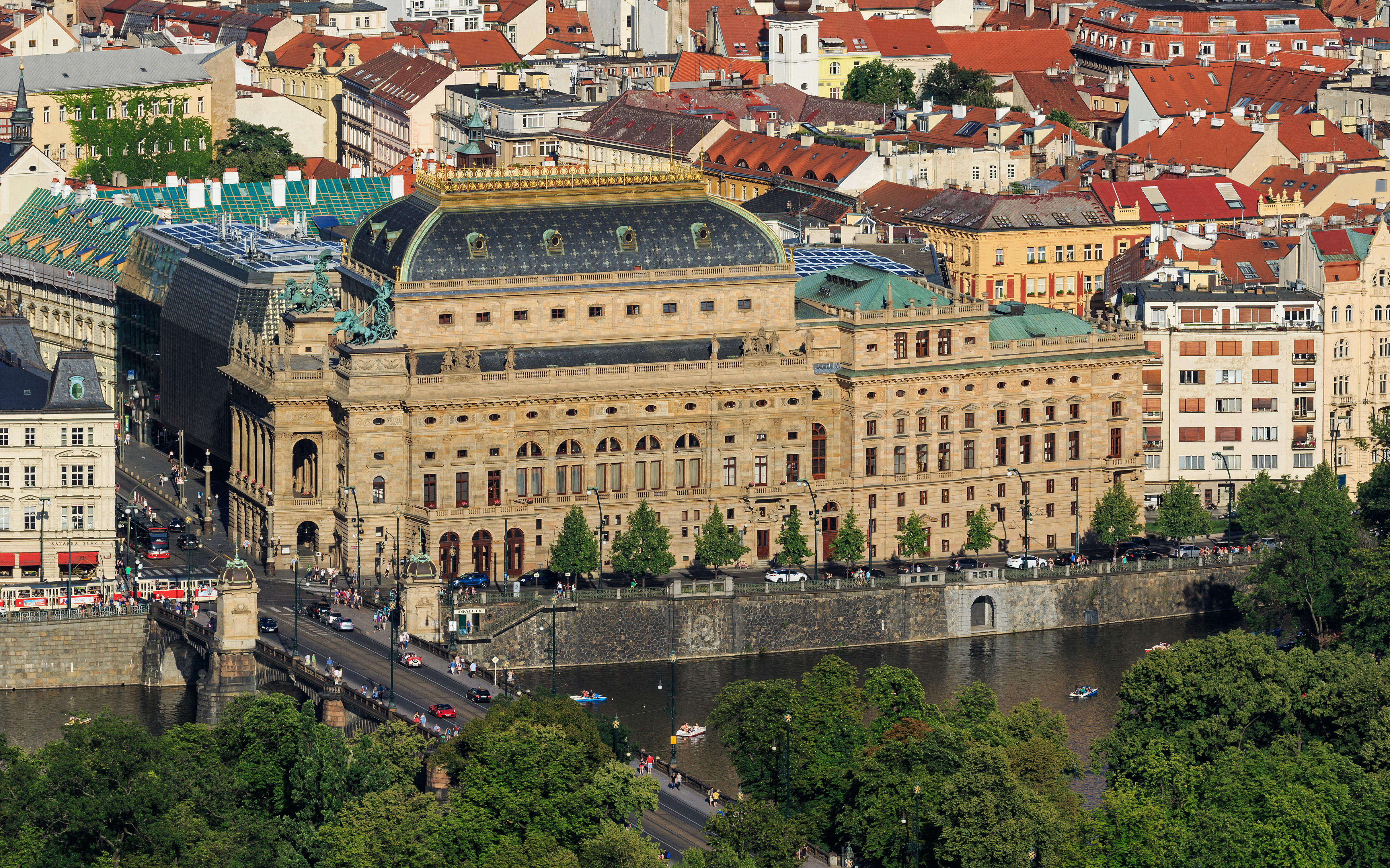 View from Petřín Lookout Tower in Prague (Czech Republic) – National Theatre